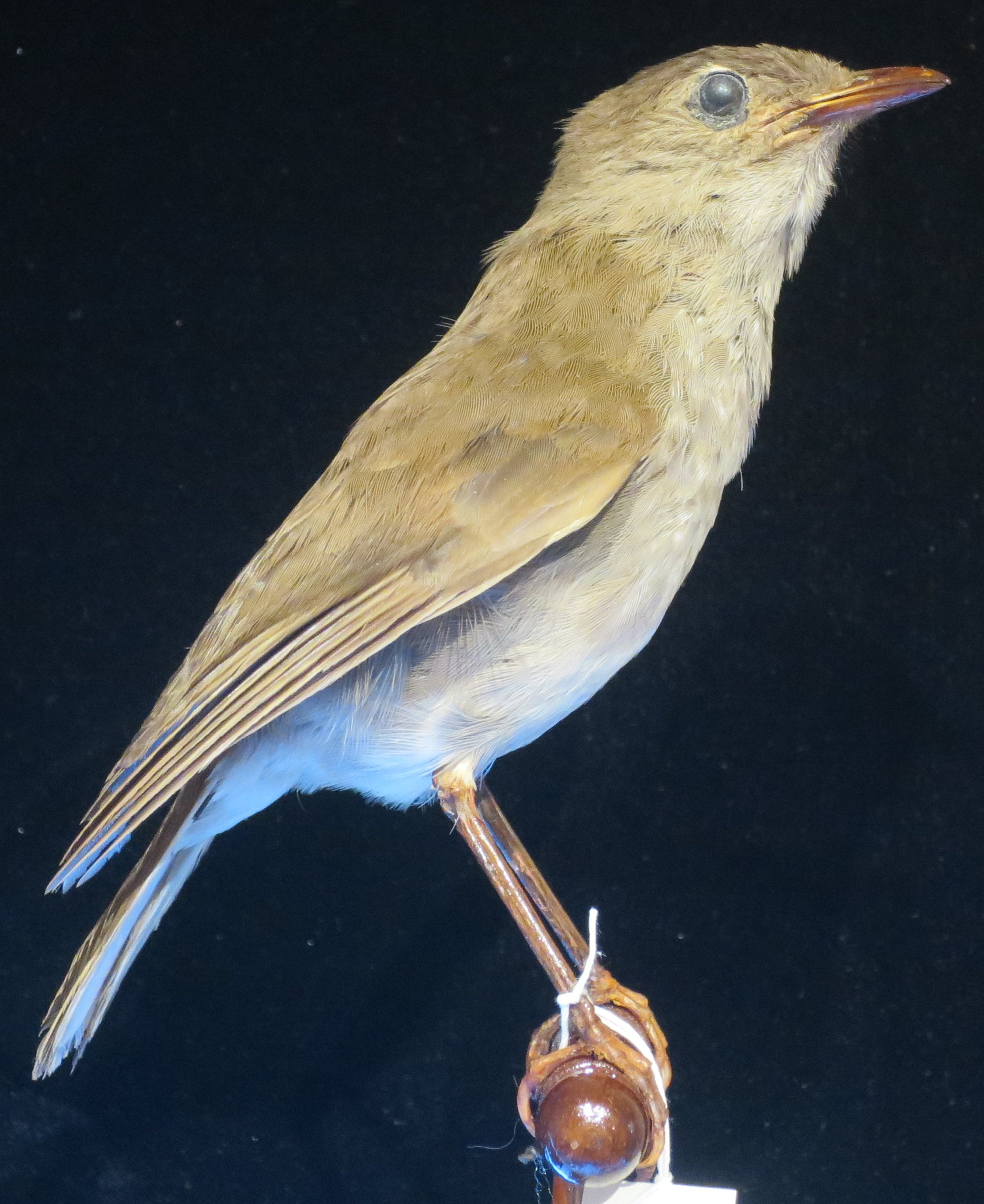 Phaeornis palmeri Roths, male, Bishop Museum, Honolulu